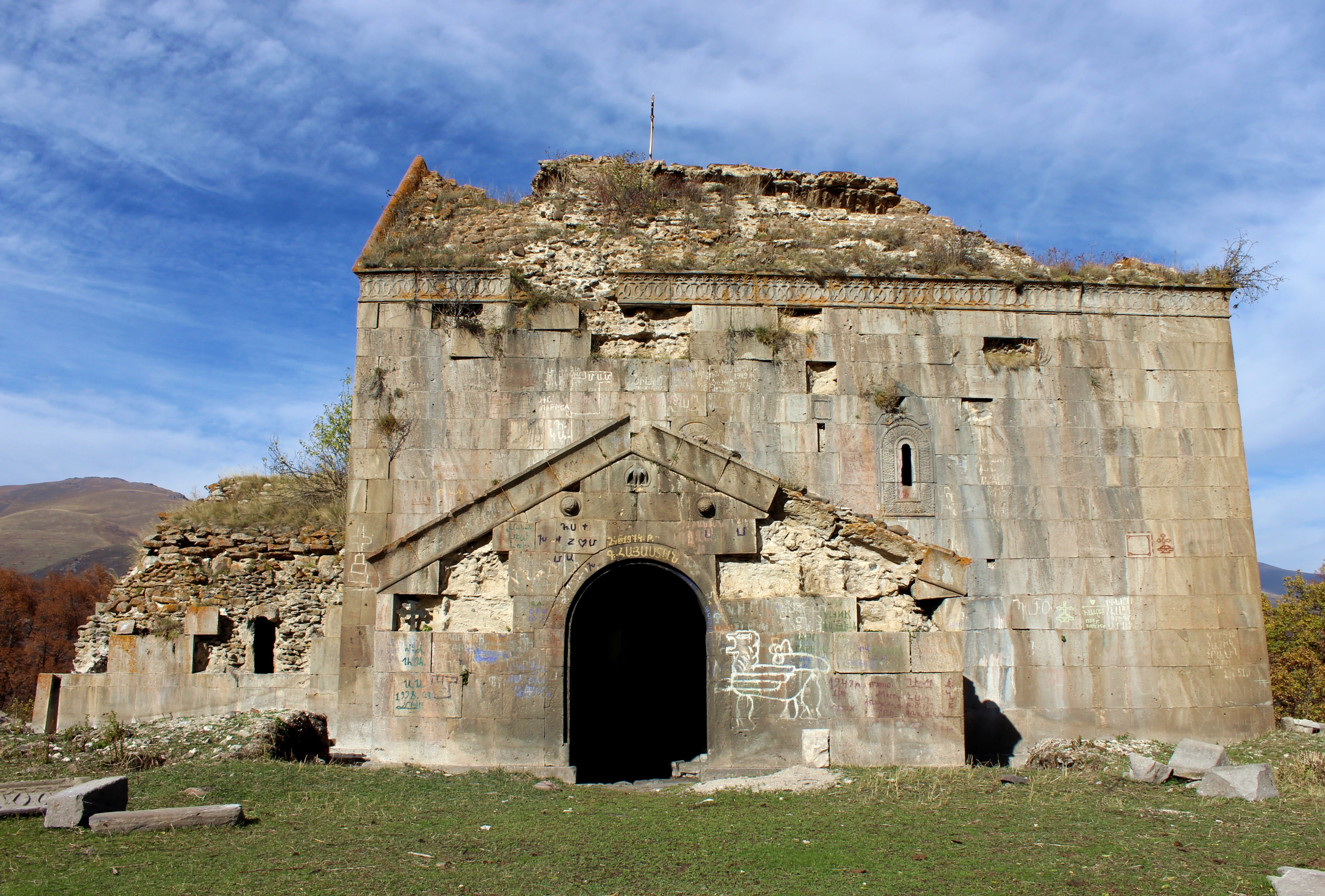 Tejharuyk Monastery near Meghradzor, Armenia